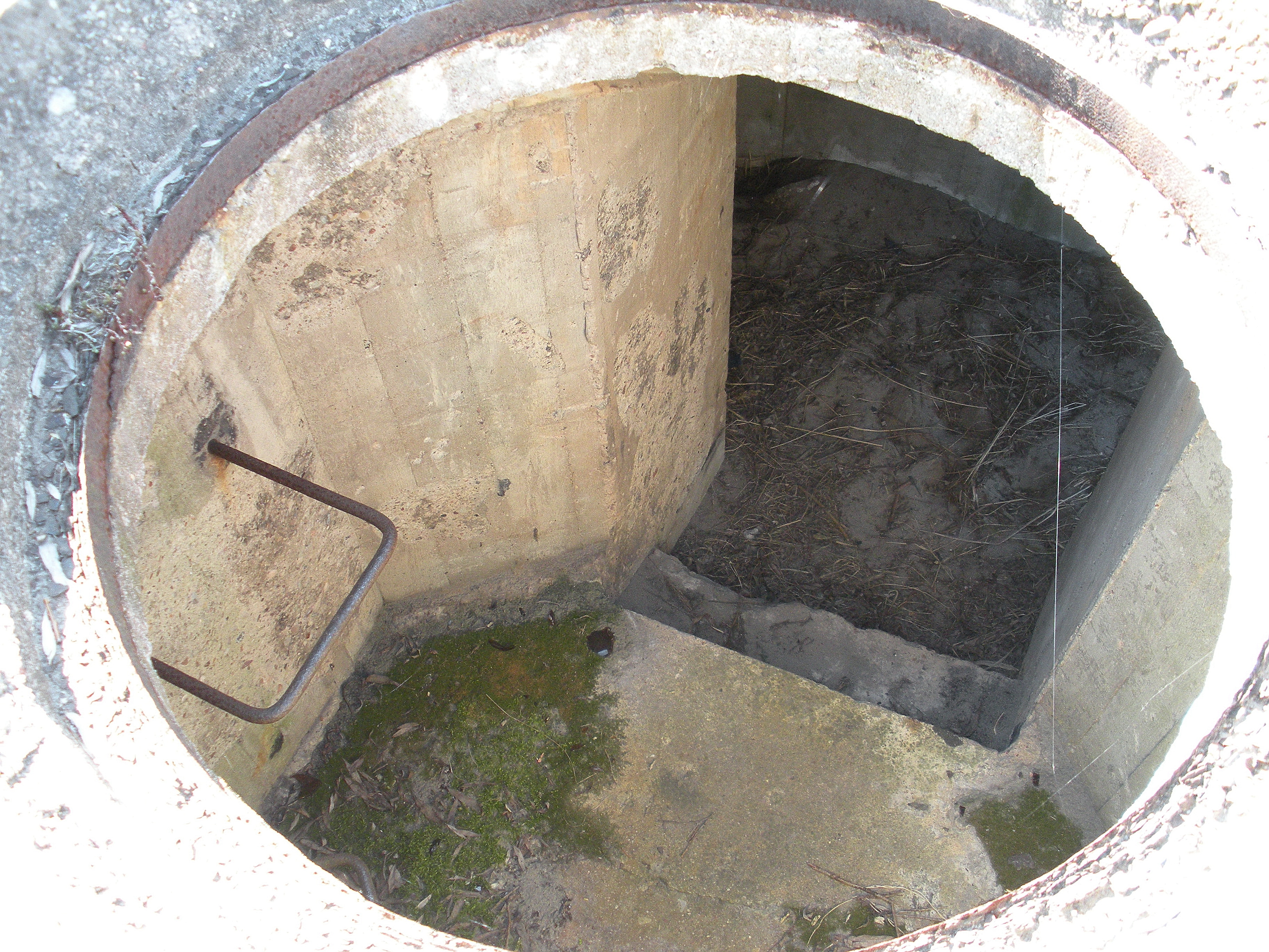 Ringstand from above. Located in Liepaja, Latvia